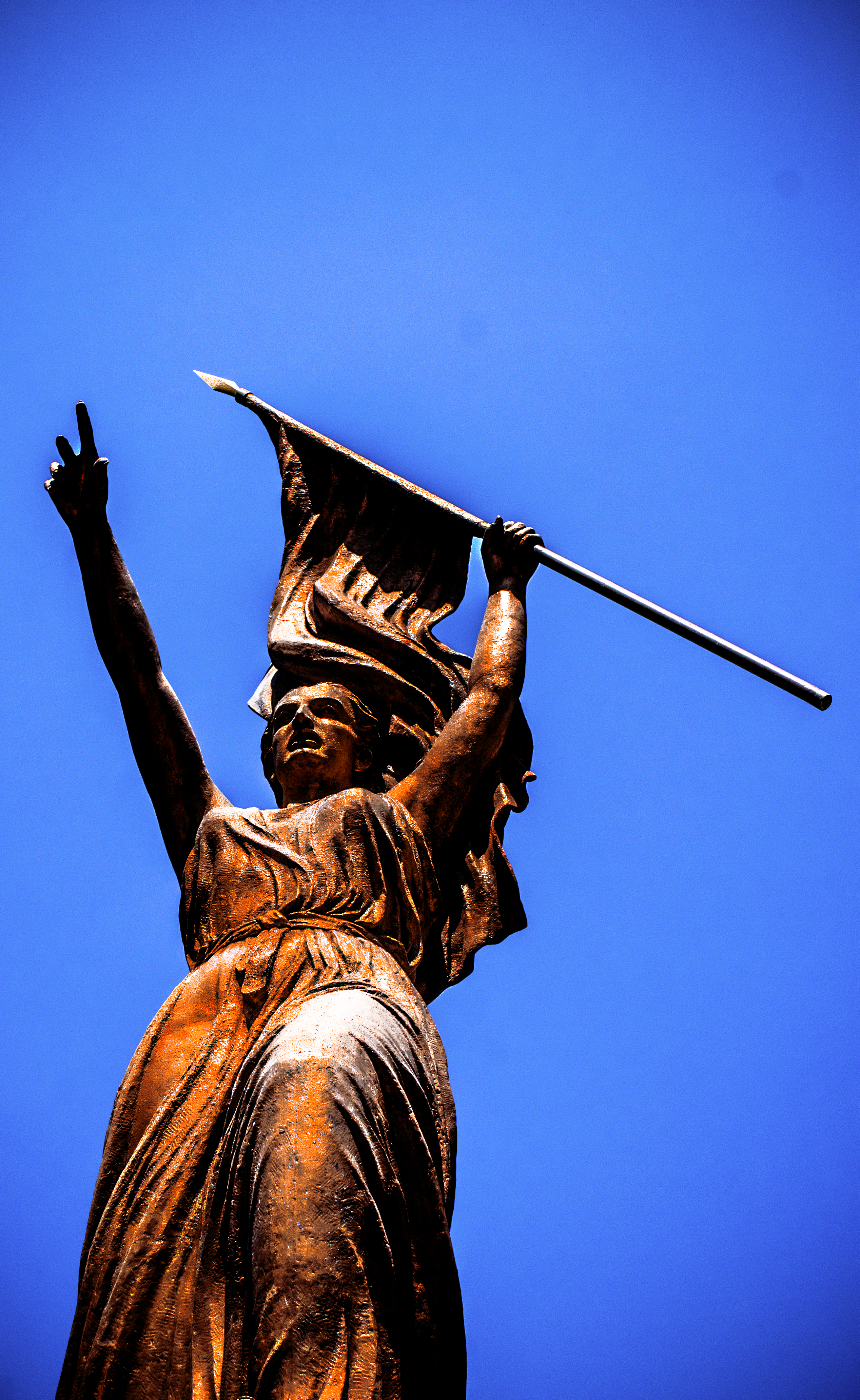 Monument in honor of Antonia Santos in Socorro,Santander,Colombia